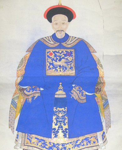 Portrait of Liu Yong.